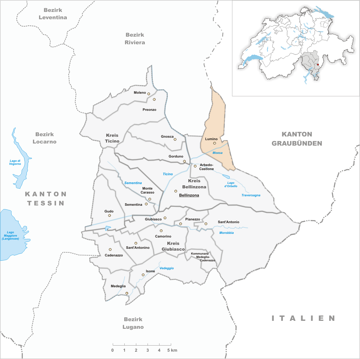 Municipality Lumino